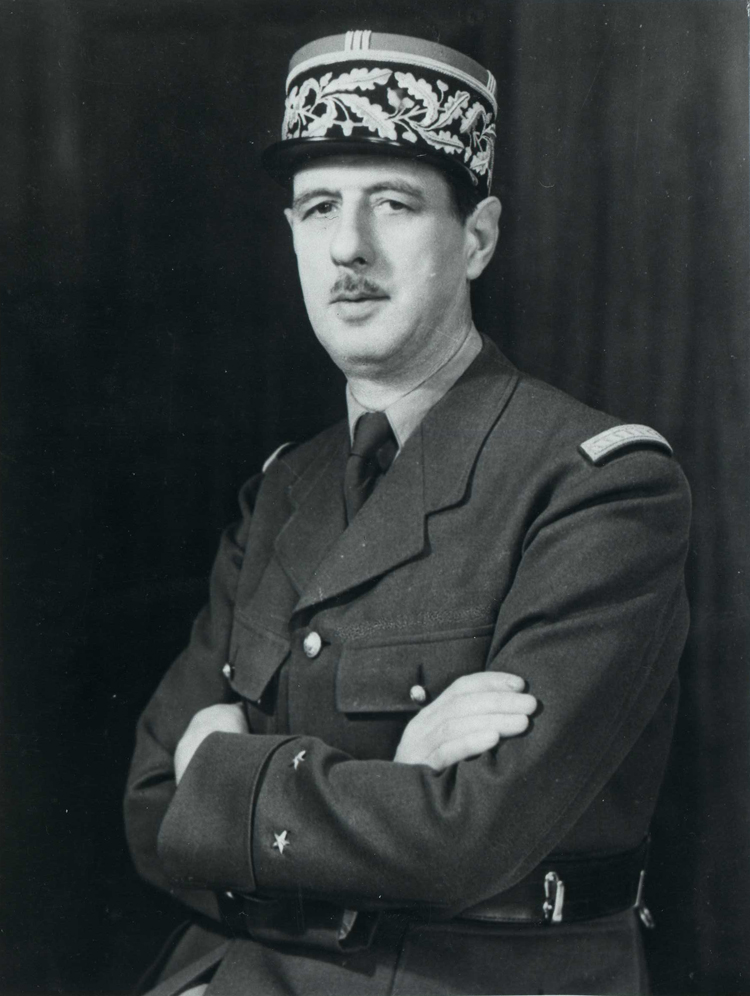 Description: Signed photograph of General Charles de Gaulle, future president of the French Republic, extracted from a file on the Czech assault on Dunkirk. Date: 1945 Our Catalogue Reference: CN 4/19 This image is from the collections of The National Archives. Feel free to share it within the spirit of the Commons. For high quality reproductions of any item from our collection please contact our image library.